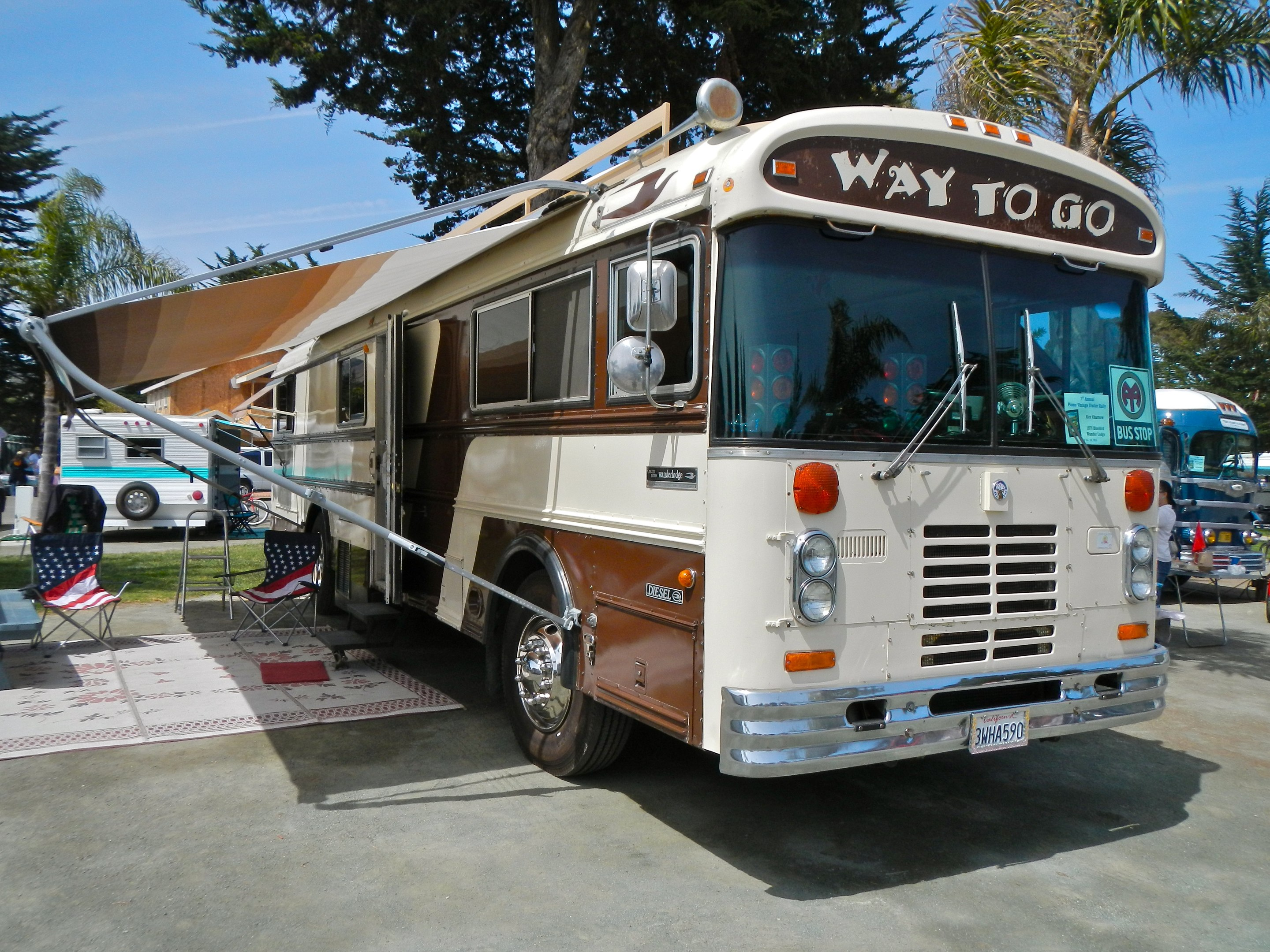 A photograph of a 1979 Blue Bird Wanderlodge luxury recreational vehicle.